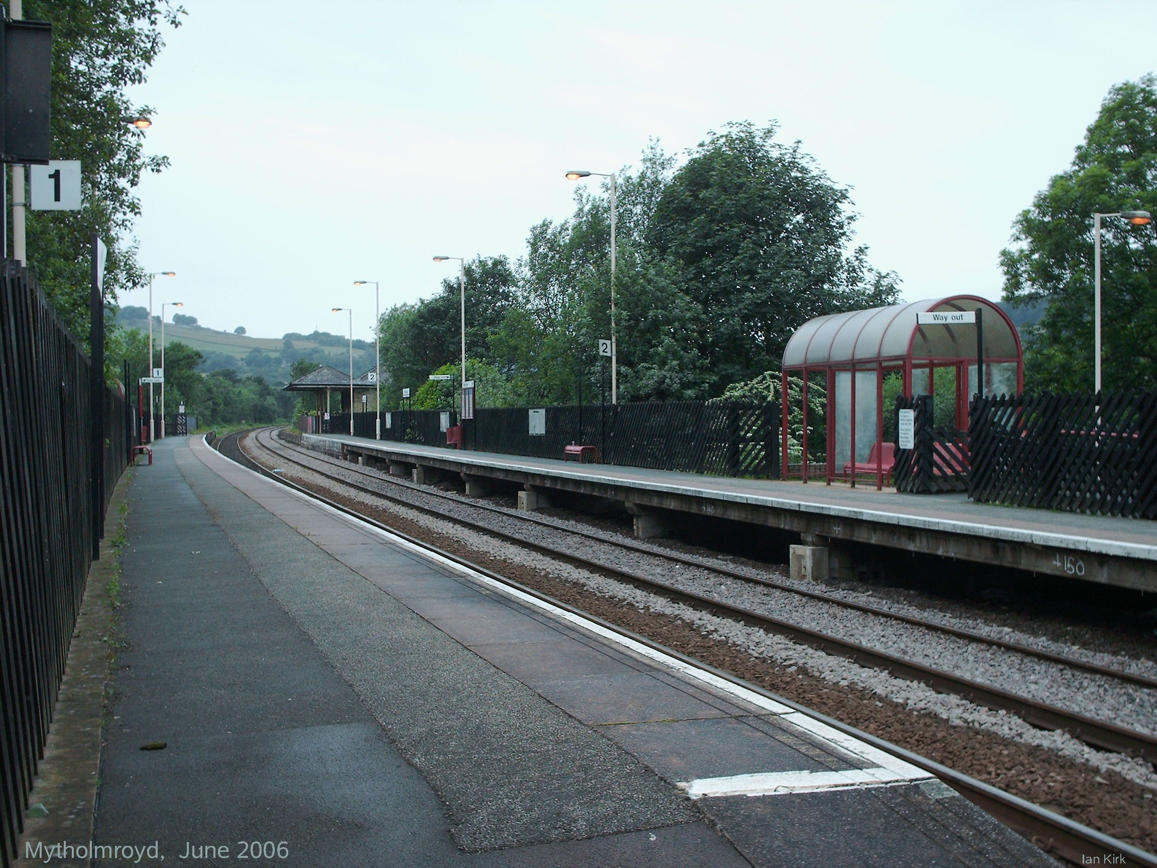 Platform 1, Mytholmroyd railway station, West Yorkshire, England.